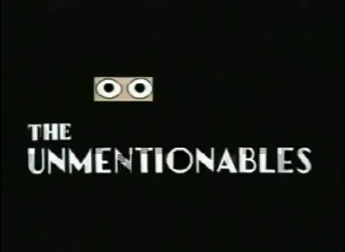 Title card for the Bugs Bunny short film "The Unmentionables."